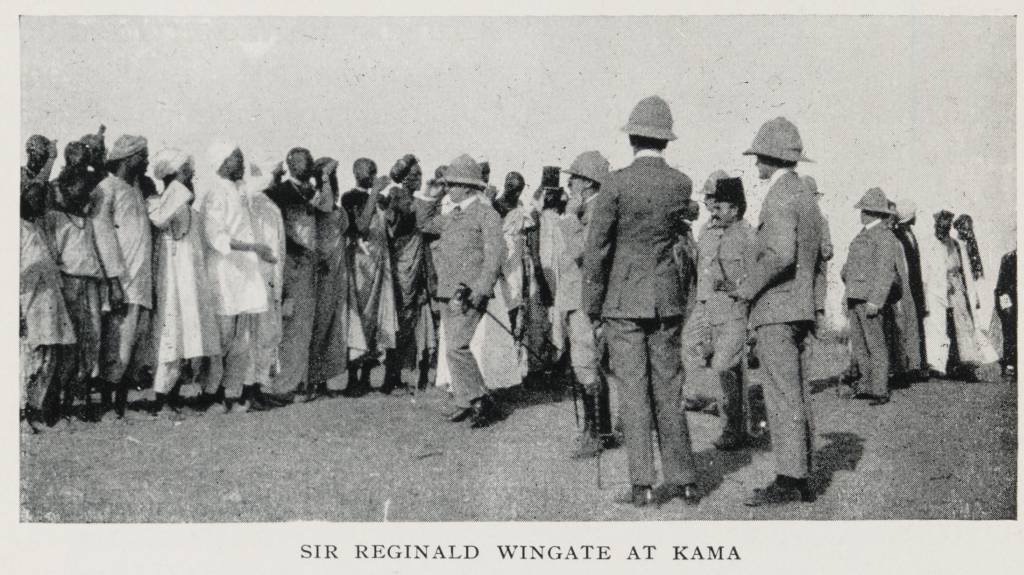 Sir Reginald Wingate, Governor-General of the Sudan and Sirdar of the Egyptian Army, walks down a line of native people as several other Englishmen wait nearby.